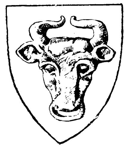 Coat of arms Wieniawa from eraldyka polska wieków średnich